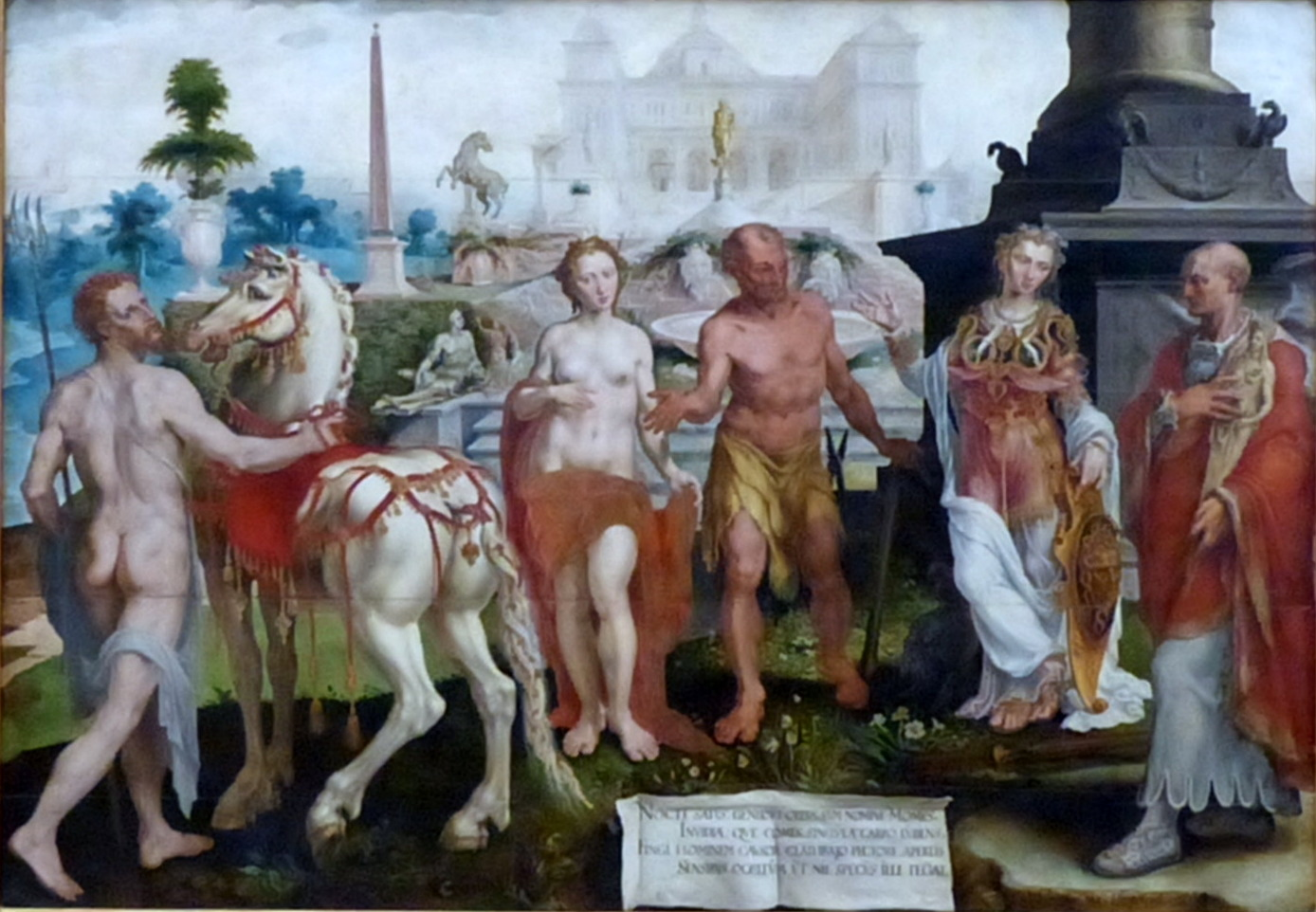 Momus Criticizes the Gods' Cerations. Mythological painting. By Maarten van Heemskerck, Gemäldegalerie Berlin